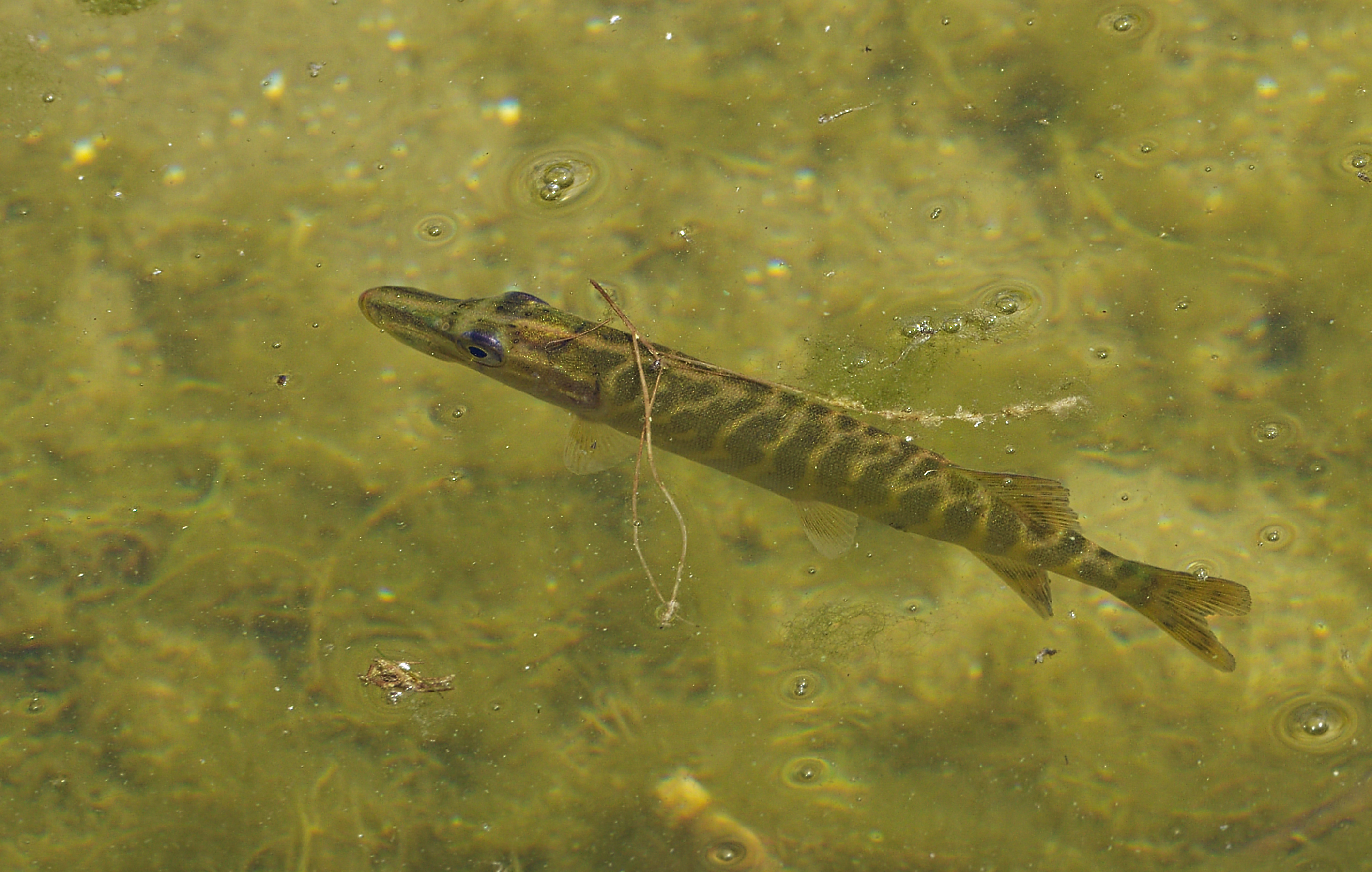 Northern pike - Esox lucius, young. Taken in the Westensee in Felde, Schleswig-Holstein, Germany.